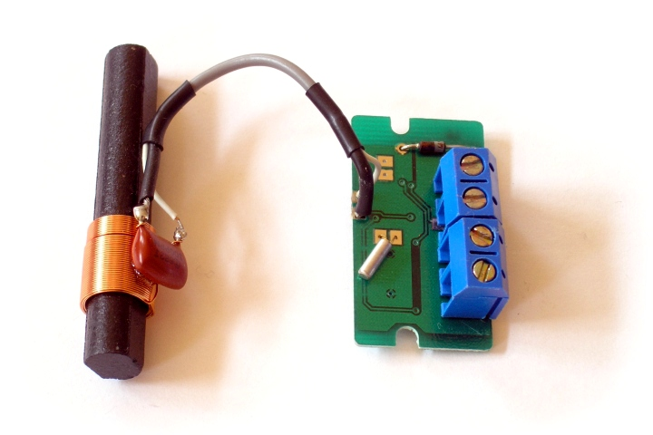 Low cost DCF77 receiver module. This is a radio receiver used in a radio clock, a quartz clock which is periodically set to the correct time by radio signals synchronized with an atomic clock from a government radio station. This one receives the coded time signals broadcast by German government time radio station DCF77 on 77.5 kHz. The ferrite loopstick (left) is the radio's antenna, and with the attached capacitor also serves as its tuned circuit.